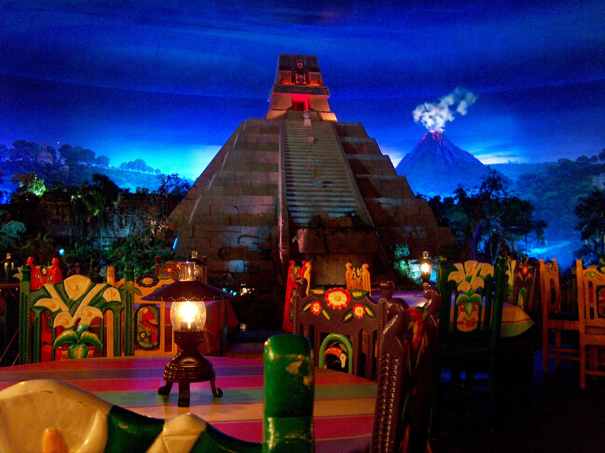 Inside view of the Mexico pavilion at EPCOT from within the San Angel Inn restaurant.